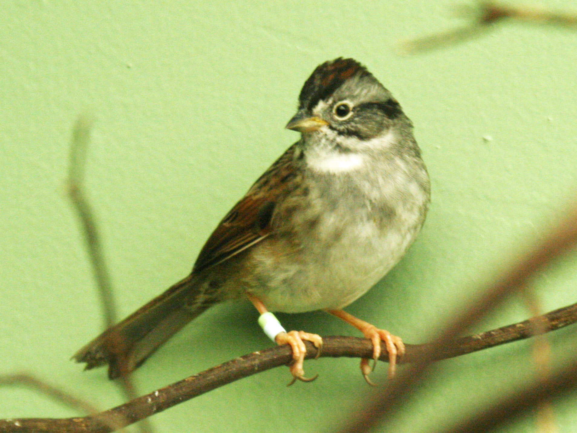 Coastal Plain Swamp Sparrow, a subspecies of the Swamp Sparrow (Melospiza georgiana). Photographed at the Washington National Zoo.